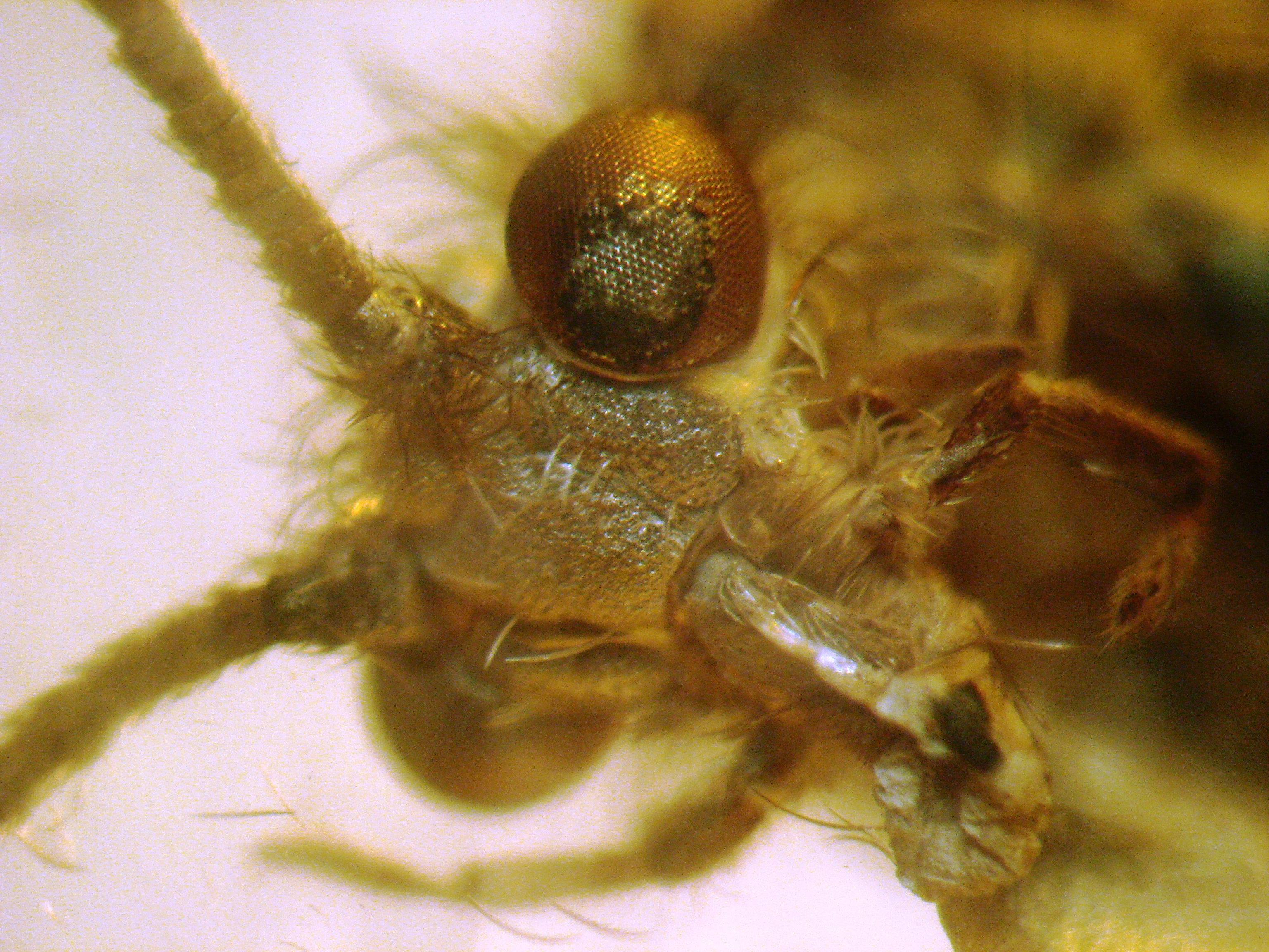 Baltic amber inclusions - 40-50 million years old - Caddisflies (Amphiesmenoptera, Trichoptera, ...?). The Trichoptera is about 13 mm long (from the head and to the rear of the last leg) and the head is about 1,5 mm. There are 5 photos of this Trichoptera in this category: Fossil Trichoptera. The images have the same name as this just added a number between 1 and 5 after the brackets.